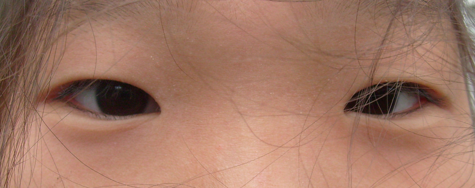 typical epicanthic fold, at a young Korean girl